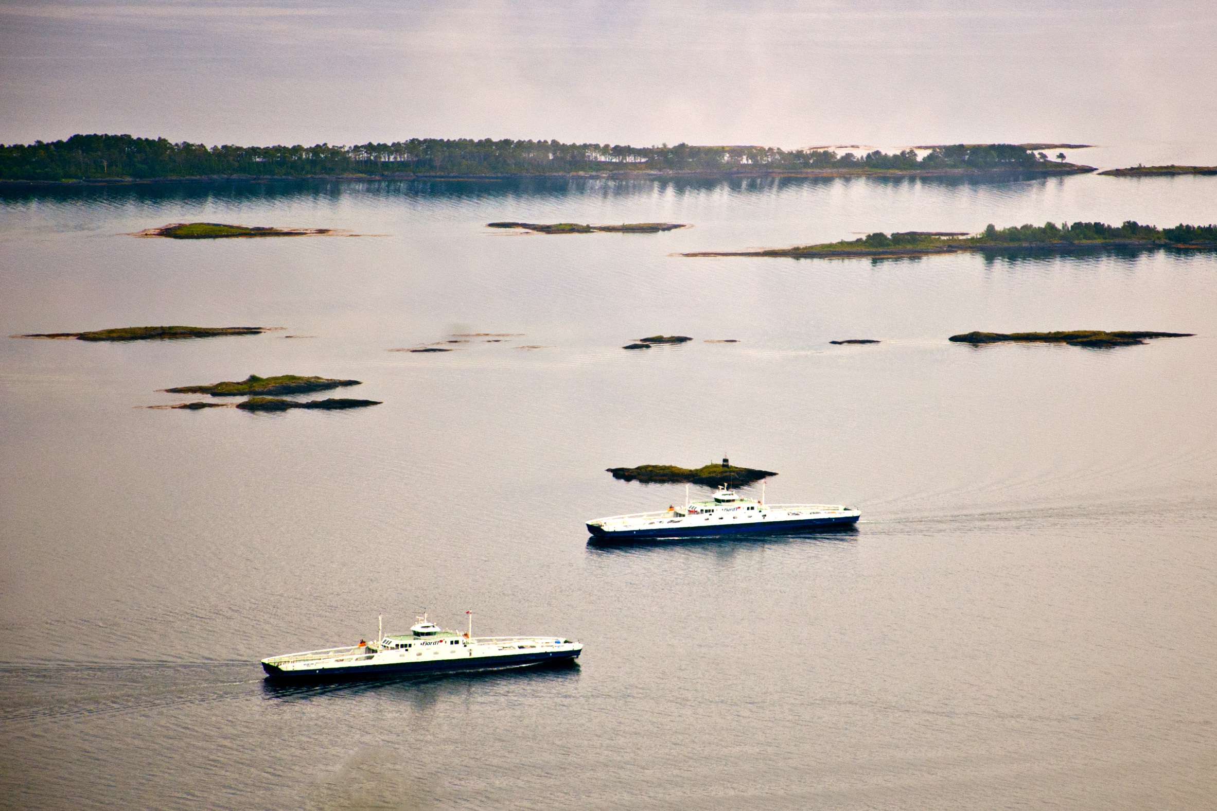 MF Moldefjord meets MF Romsdalsfjord between Molde and Vestnes in Møre og Romsdal county, Norway.